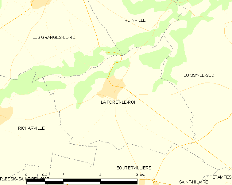 Map of French municipality La Forêt-le-Roi